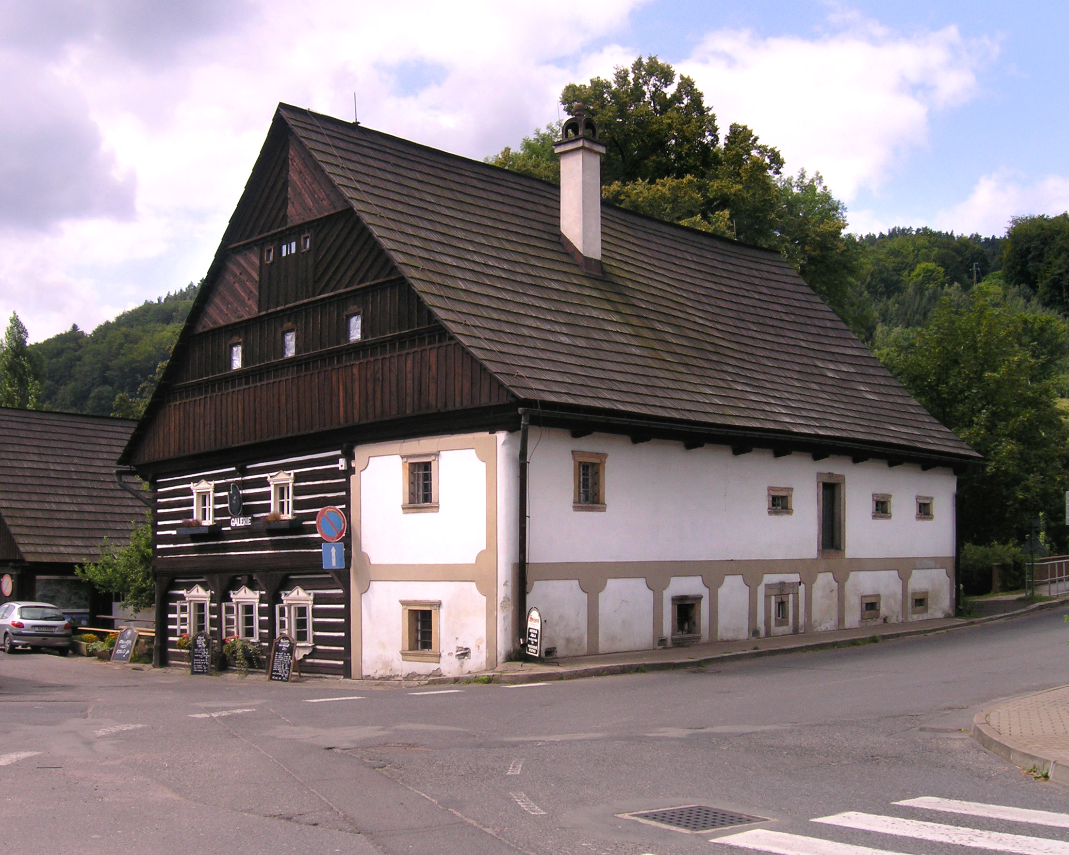 Bouček farmhouse in Malá Skála, Czech Republic